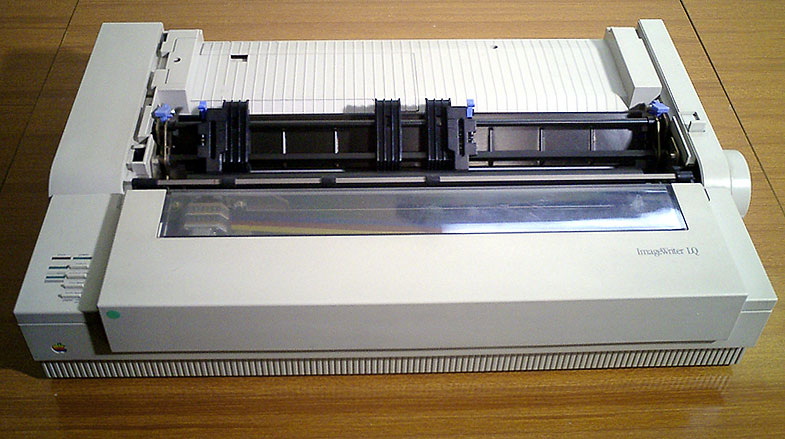 Apple ImageWriter LQ